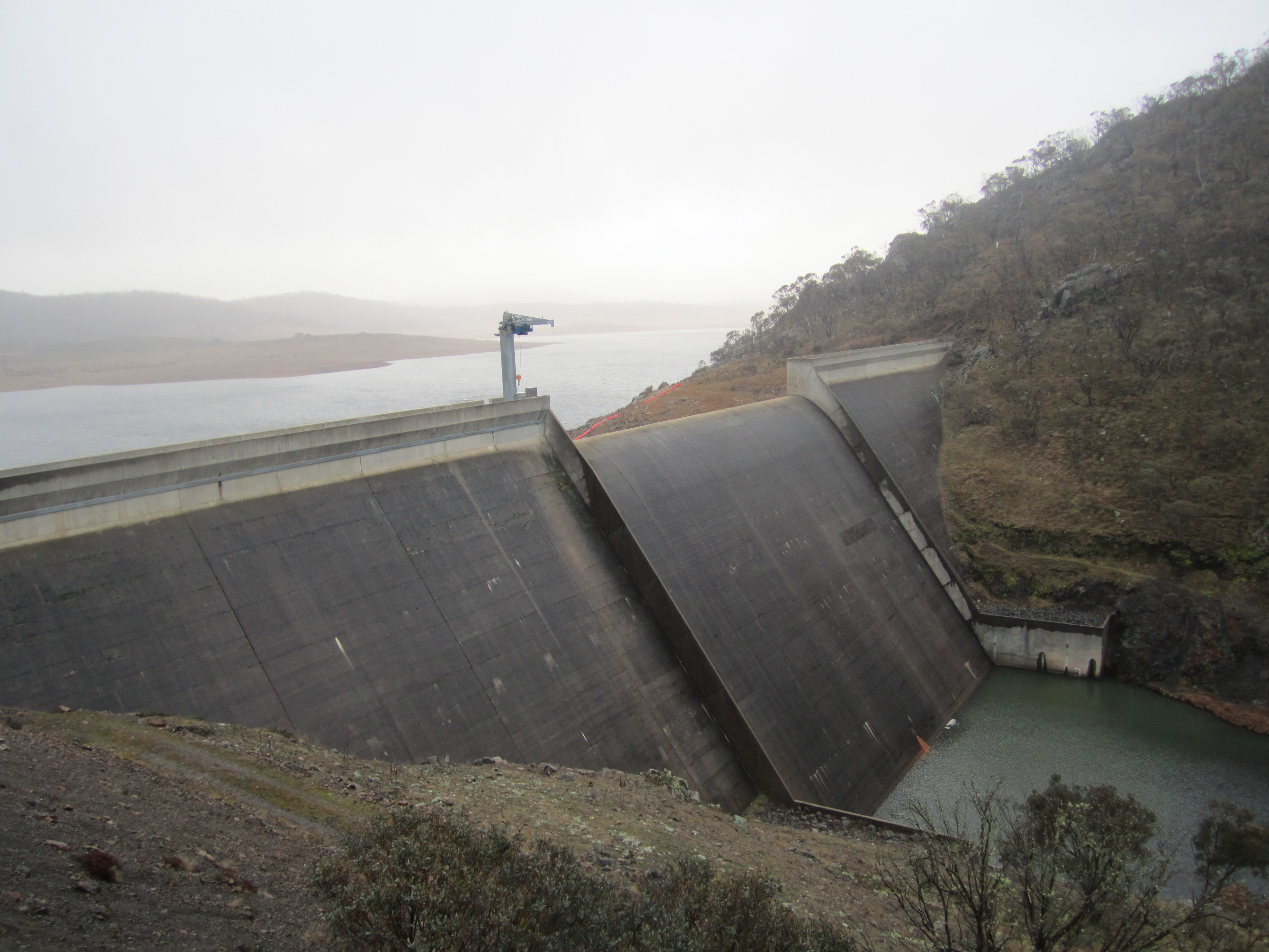 Murrumbidgee River below Tantangara Dam, NSW, Australia; looking north-north-west; late Winter 2010; late afternoon; rainy, overcast day